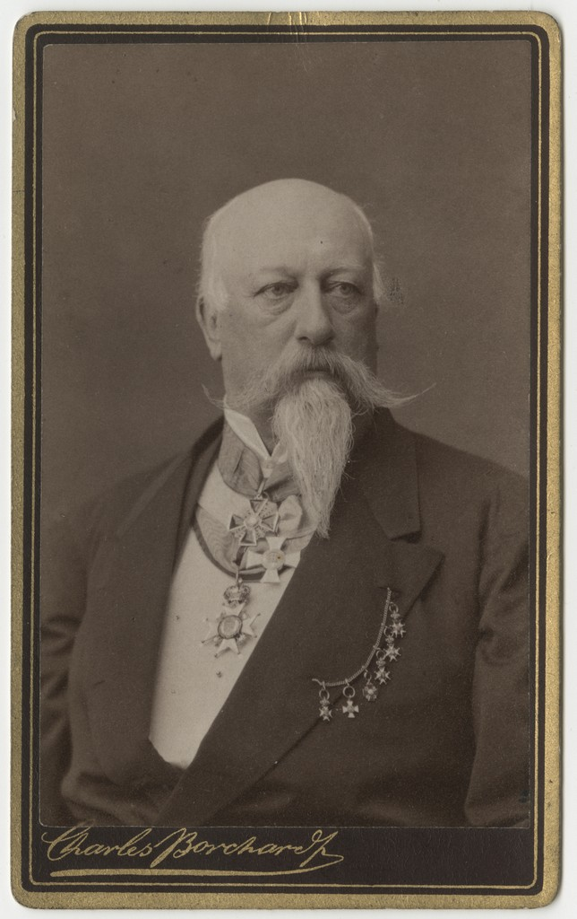 1829-1903, Rootsi riigi heeroldmeister, genealoog - - - 1829-1903, State Herald of Sweden, genealogist Autor / Author: Charles Borchardt, Tallinn Viitekood / Reference code: EAA.2057.1.248.8 Kirje andmebaasis FOTIS / Description in the database FOTIS